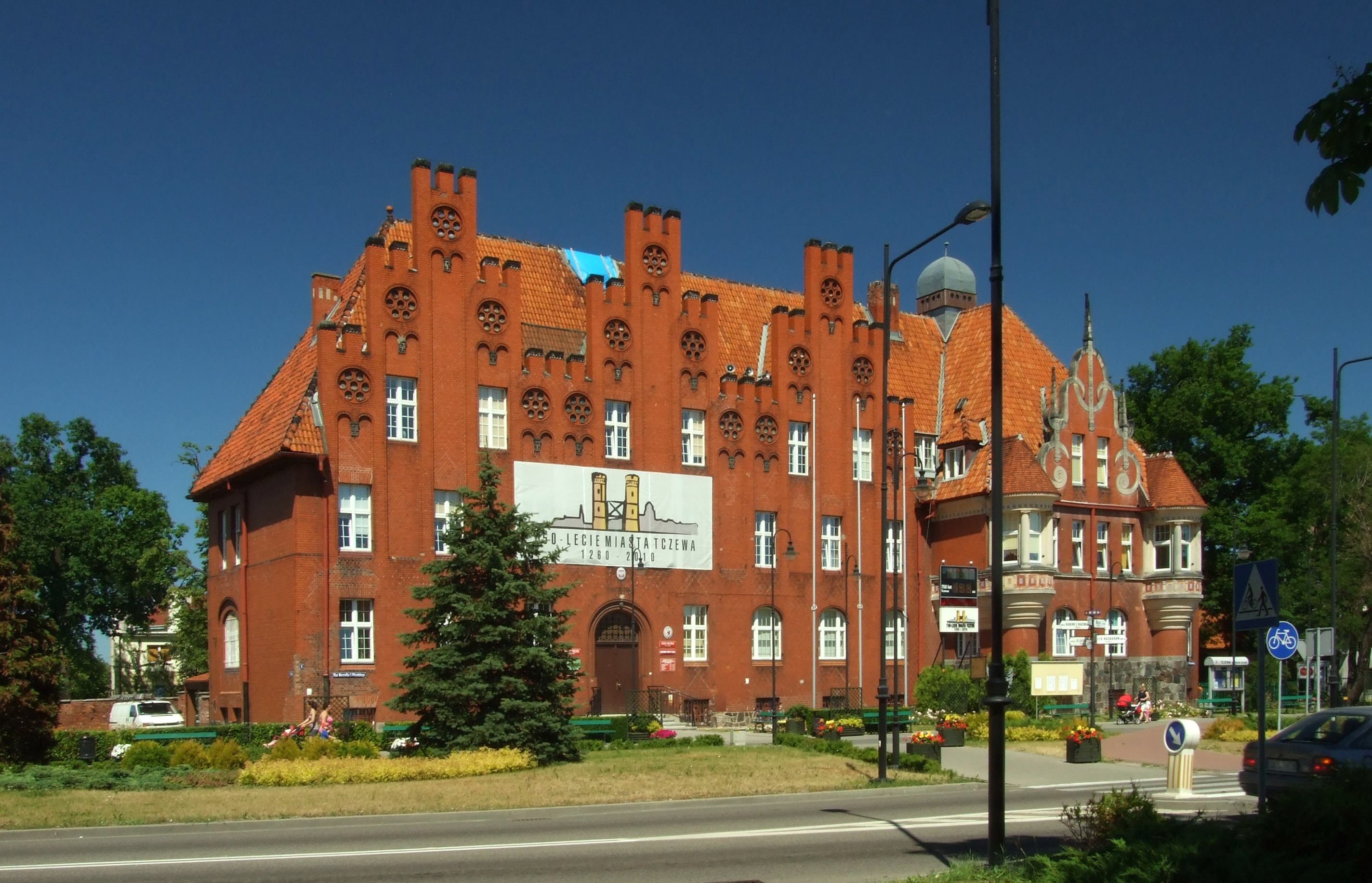 Tczew city hall building, Poland. The poster on facade commemorates 750 anniversary of Tczew; polish text is followed by a picture of famous Tczew bridge across Vistula river